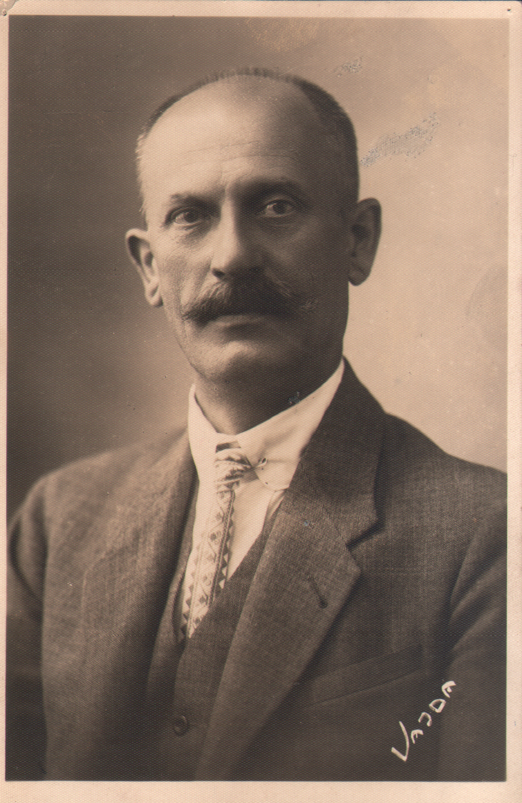 Dr. L'udovit Mičátek (1878-1928). Museum of vojvodinian Slovaks.